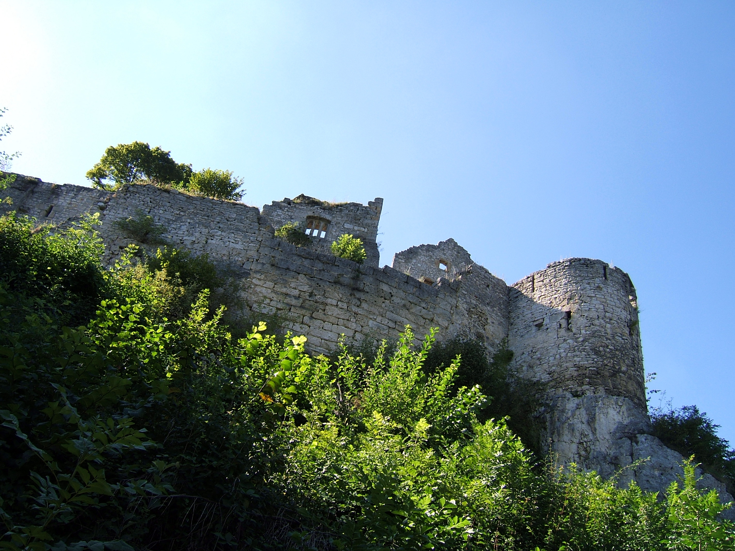 Ruins of Castle Hohenurach in Germany